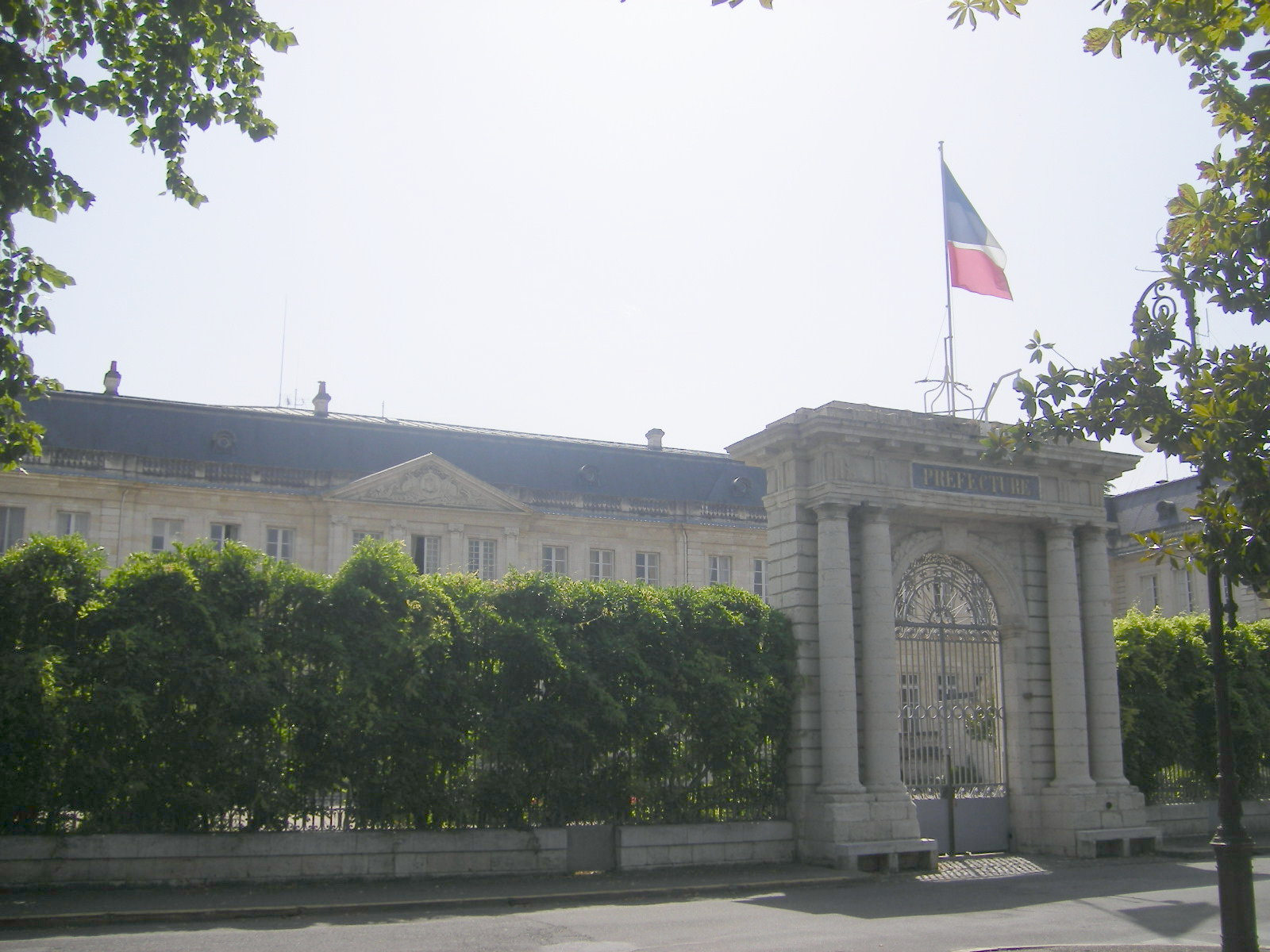 Agen, Prefecture of Lot-et-Garonne